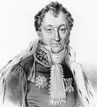 Mathieu de Montmorency